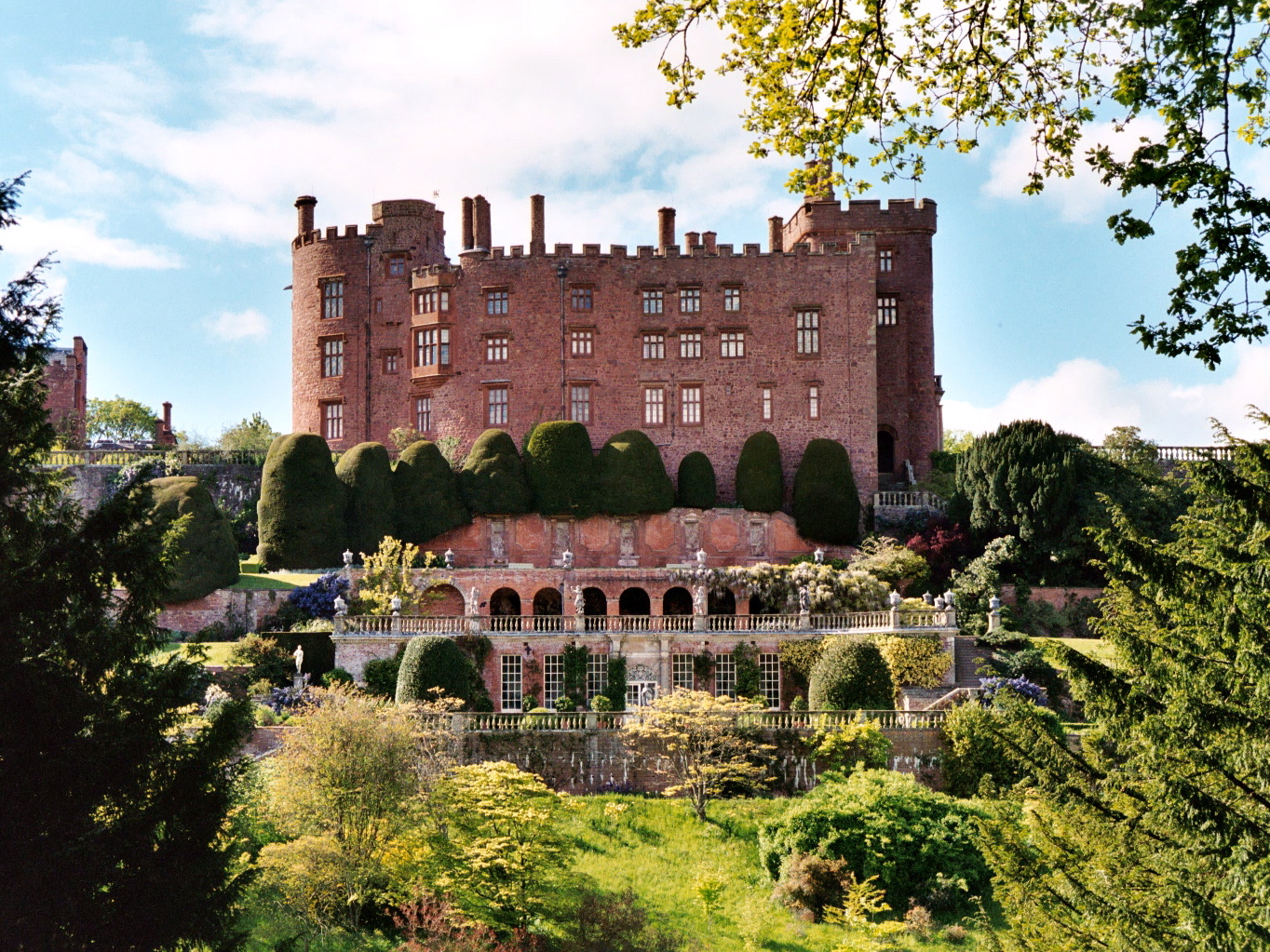 Powis Castle, originally built c. 1200 as a fortress of the Welsh Princes of Powys. The castle sits on a rock above terraces with beautiful flowers and plants and overlooks a large garden that includes a lake, an orangery and an aviary.